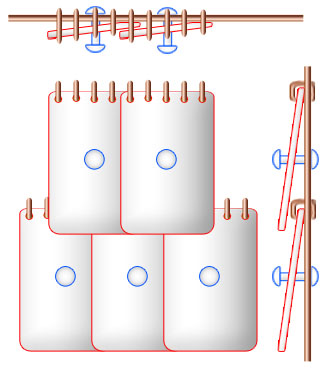 Riveted-Laced Scale Armuor Scheme